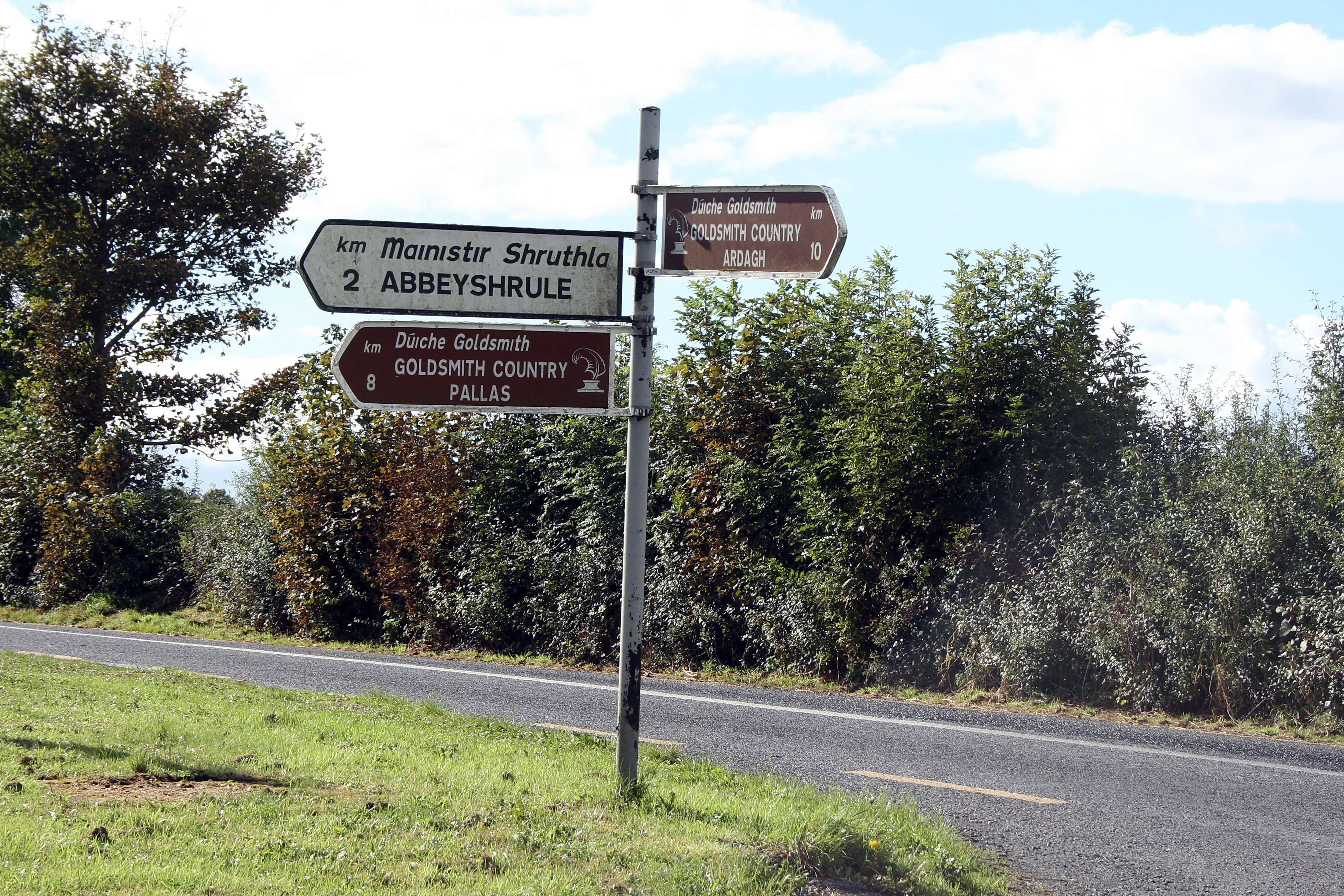 Ratharney, County Longford (3), near to Abbeyshrule, Ireland. On the R399, Abbeyshrule two km away down a local road.